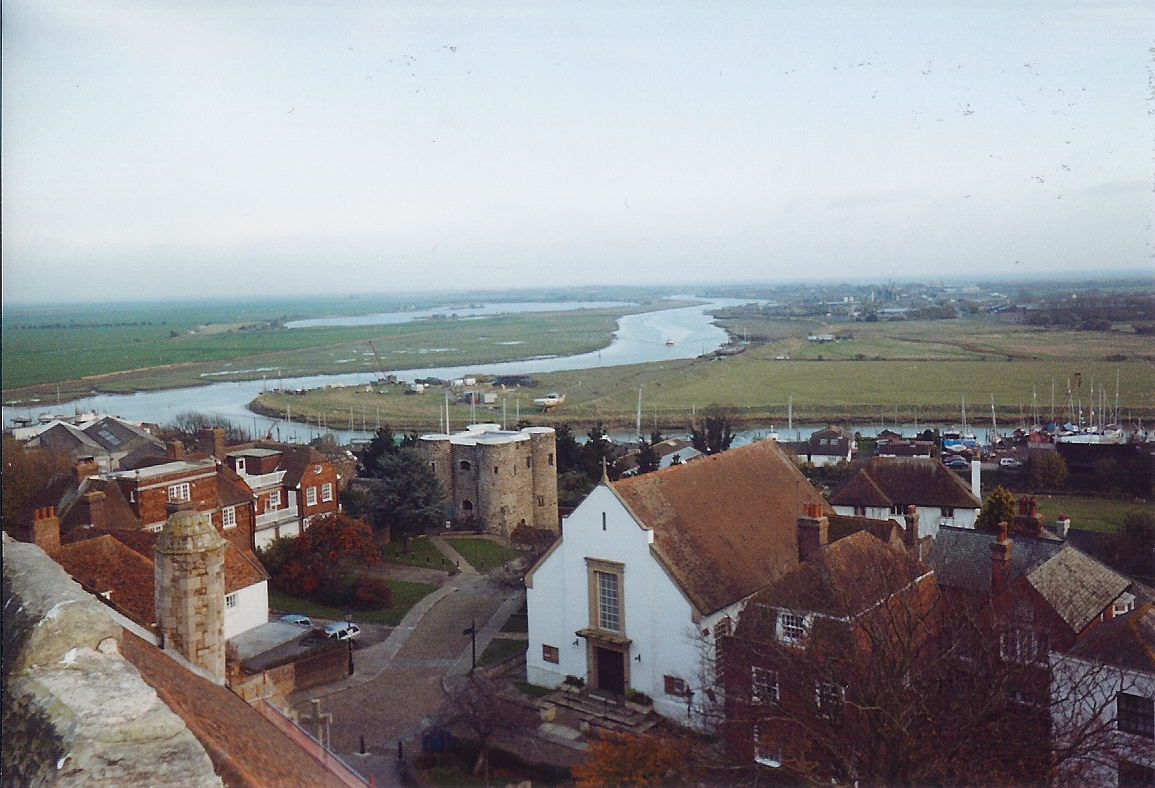 View from the tower of St Mary's church, Rye, East Sussex, southern England. The white-painted building is the Methodist church. The Ypres Tower in the centre-left marks the cliff-edge which defines the citadel. Below the cliff, roofs of buildings beside the River Tillingham can be seen, with yacht masts beyond. The river joins the River Rother and winds across Romney Marshes to the English Channel.